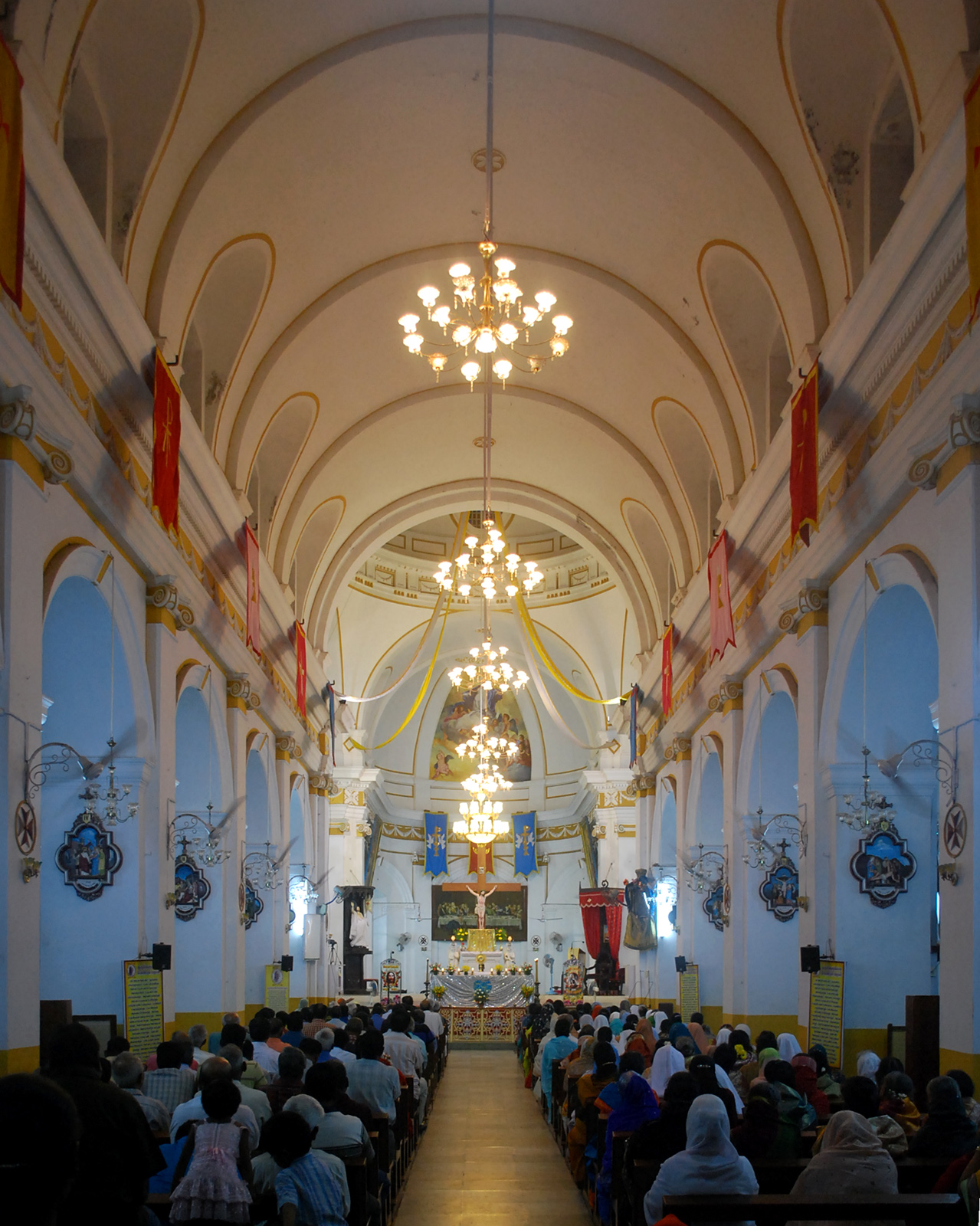 Interior of the Immaculate Conception Cathedral, Pondicherry